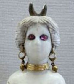 Derivative work: cropped from File:Statuette Goddess Louvre AO20127.jpg